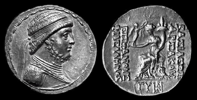 Coin of Mithridates II of Parthia from the mint at Seleucia on the Tigris. The reverse shows a seated goddess (perhaps Demeter holding Nike and a cornucopia. The Greek inscription reads ΒΑΣΙΛΕΩΣ ΜΕΓΑΛΟΥ ΑΡΣΑΚΟΥ ΦΙΛΕΛΛΗΝΟΣ ([coin] of the great king Arsaces, friend of the Greeks).